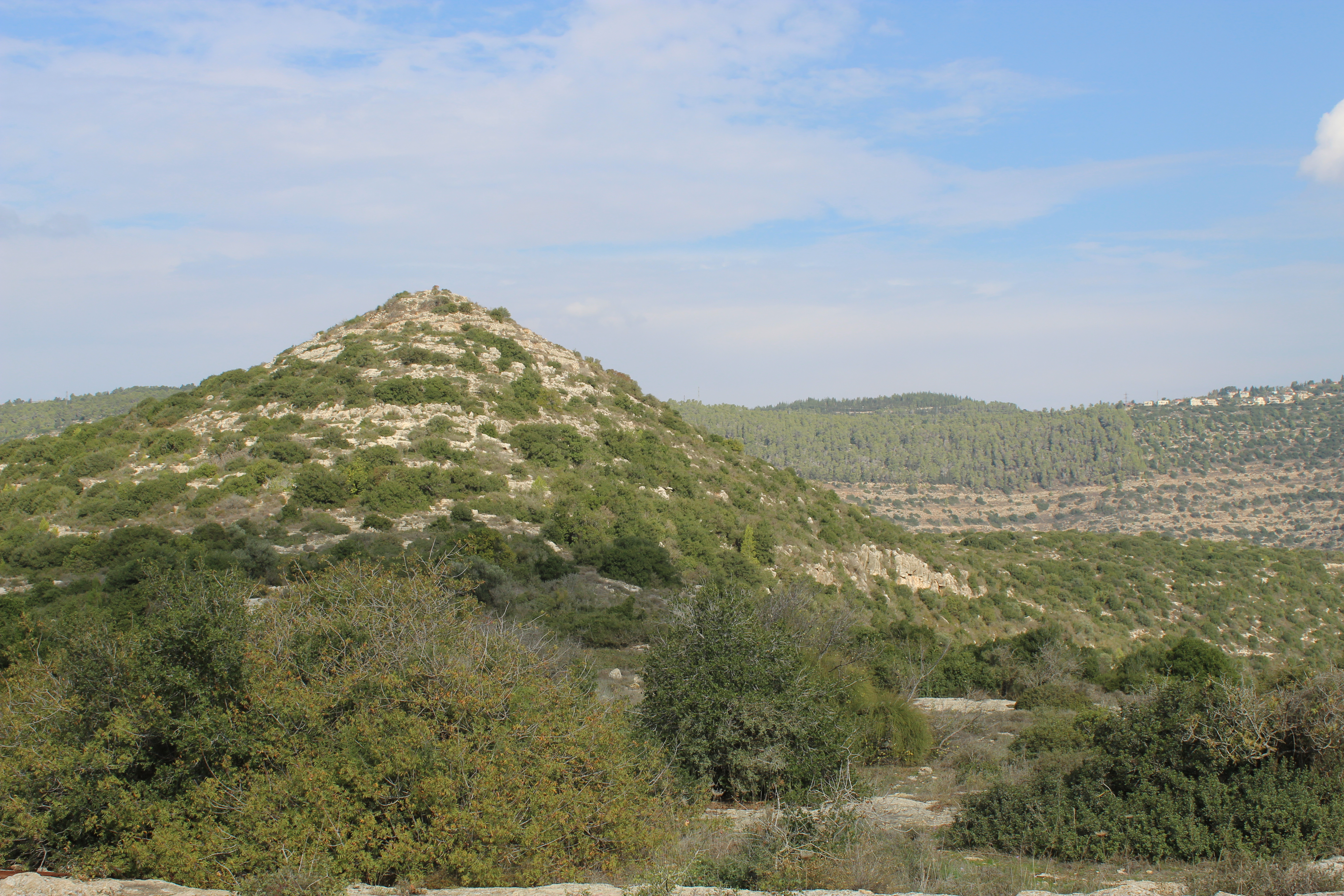 Tur Shimon rising from Nahal Sorek (Canon EOS 4000D)